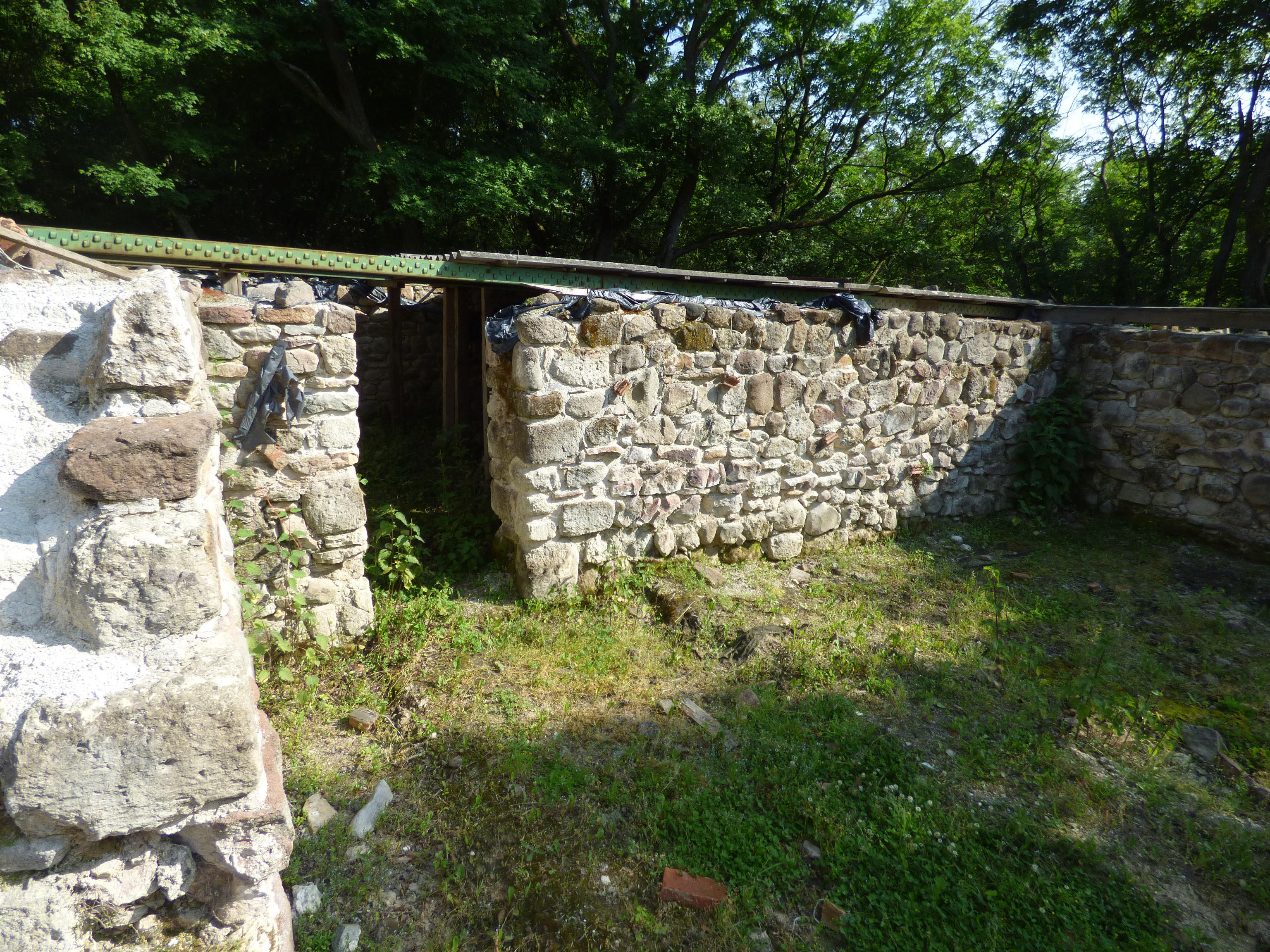 Nagykovácsipuszta, ciszterci gazdálkodási épület részben restaurált romja